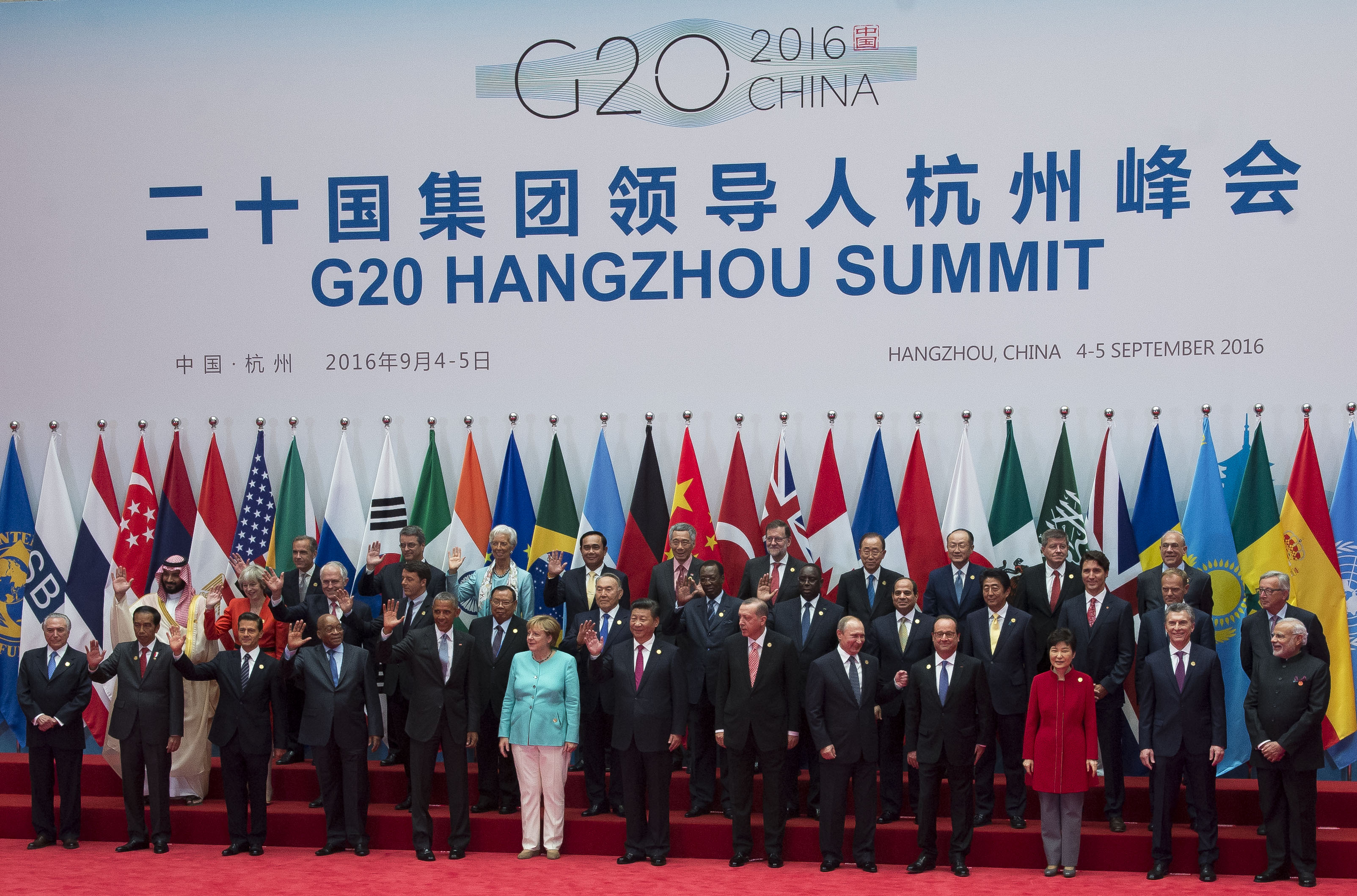 Politician leaders of the G20 at the 2016 summit, September 4 and Sept 5 at Hangzhou (China). Barack Obama, Angela Merkel (and ?other leaders?) in the middle, ... One day before, China and USA have ratified the Paris Agreement. (description is not complete!).